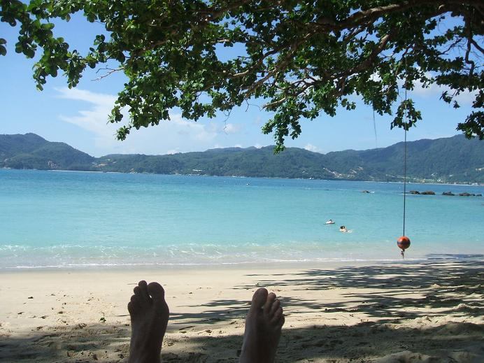 Thailand - Phuket - Patong - Paradise Beach - very nice